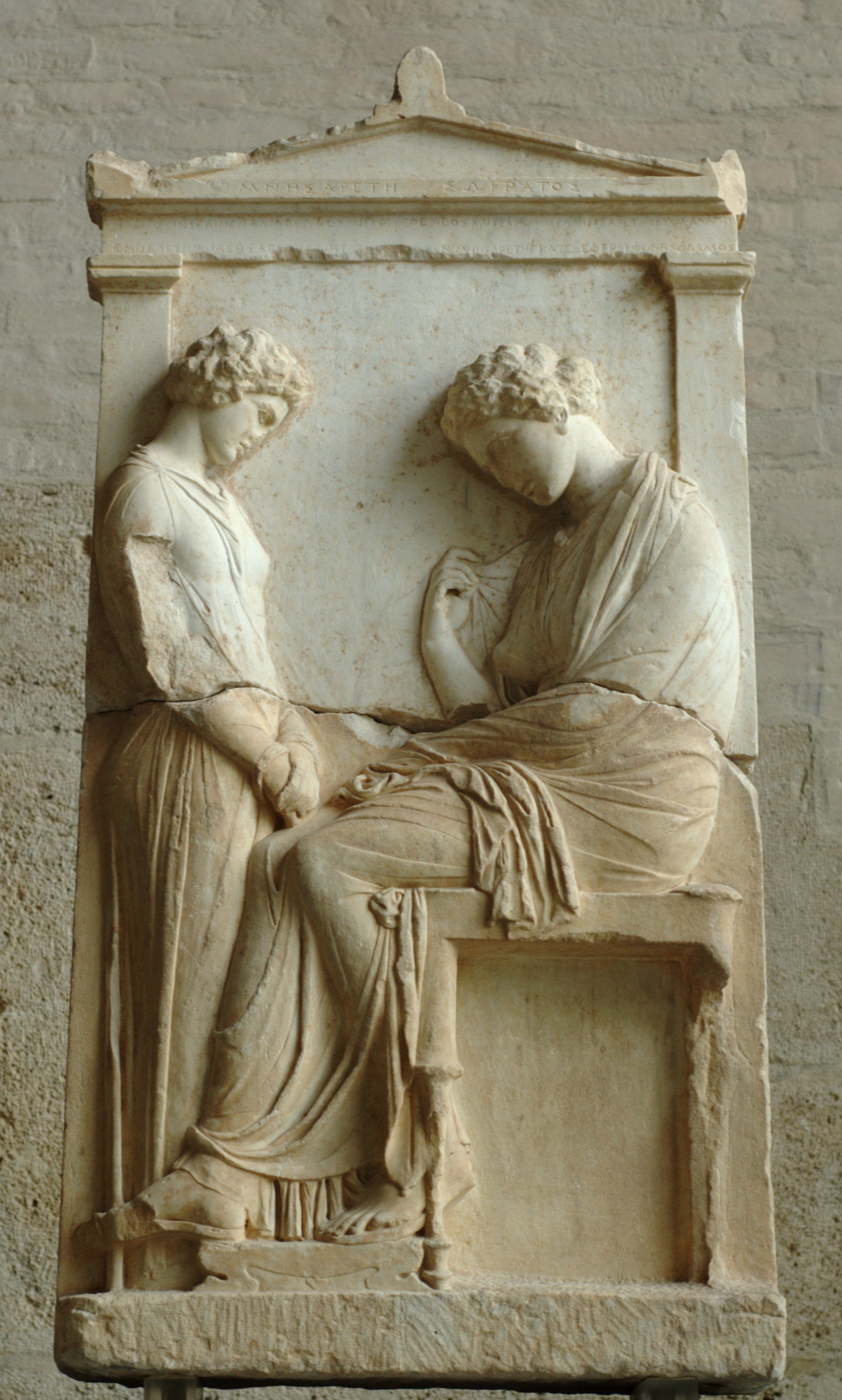 Funerary stele of Mnesarete. A young girl (left) is facing the dead woman. Inscription: ΜΝΗΣΑΡΕΤΗ ΣΩΚΡΑΤΟΣ (“Mnesarete [the daughter] of Socrates”). Attica, ca. 380 BC.